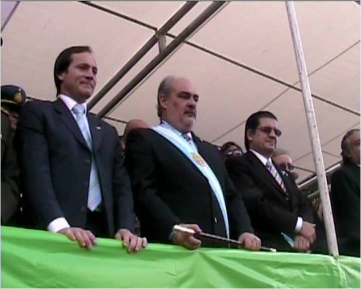 The Mayor of Corrientes, Carlos Espínola; the Governor, Ricardo Colombi; and Lieutenant Governor, Pedro Braillard Poccard, presiding over the Argentine Bicentennial event in Corrientes.